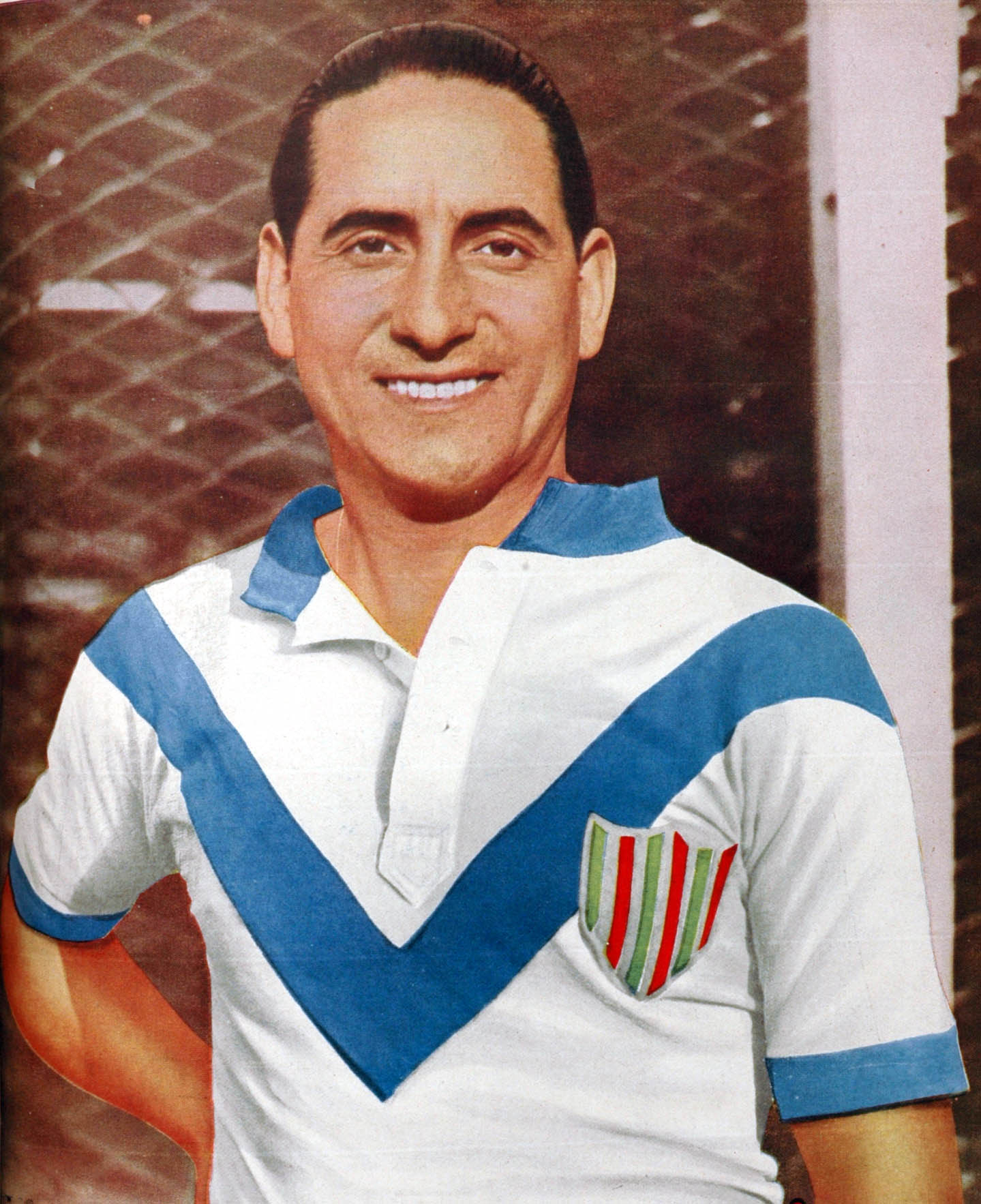 Player of Velez Sarsfield, Iván Mayo.